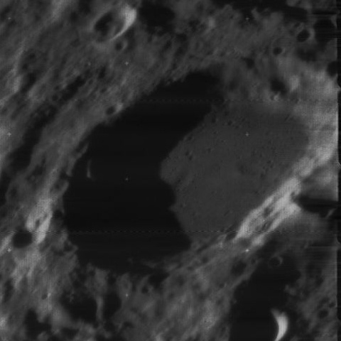 Oblique view of Cusanus, facing west, on the moon.